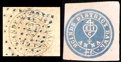 White and Blue Scinde Dawks, 0.5 anna, 1852.